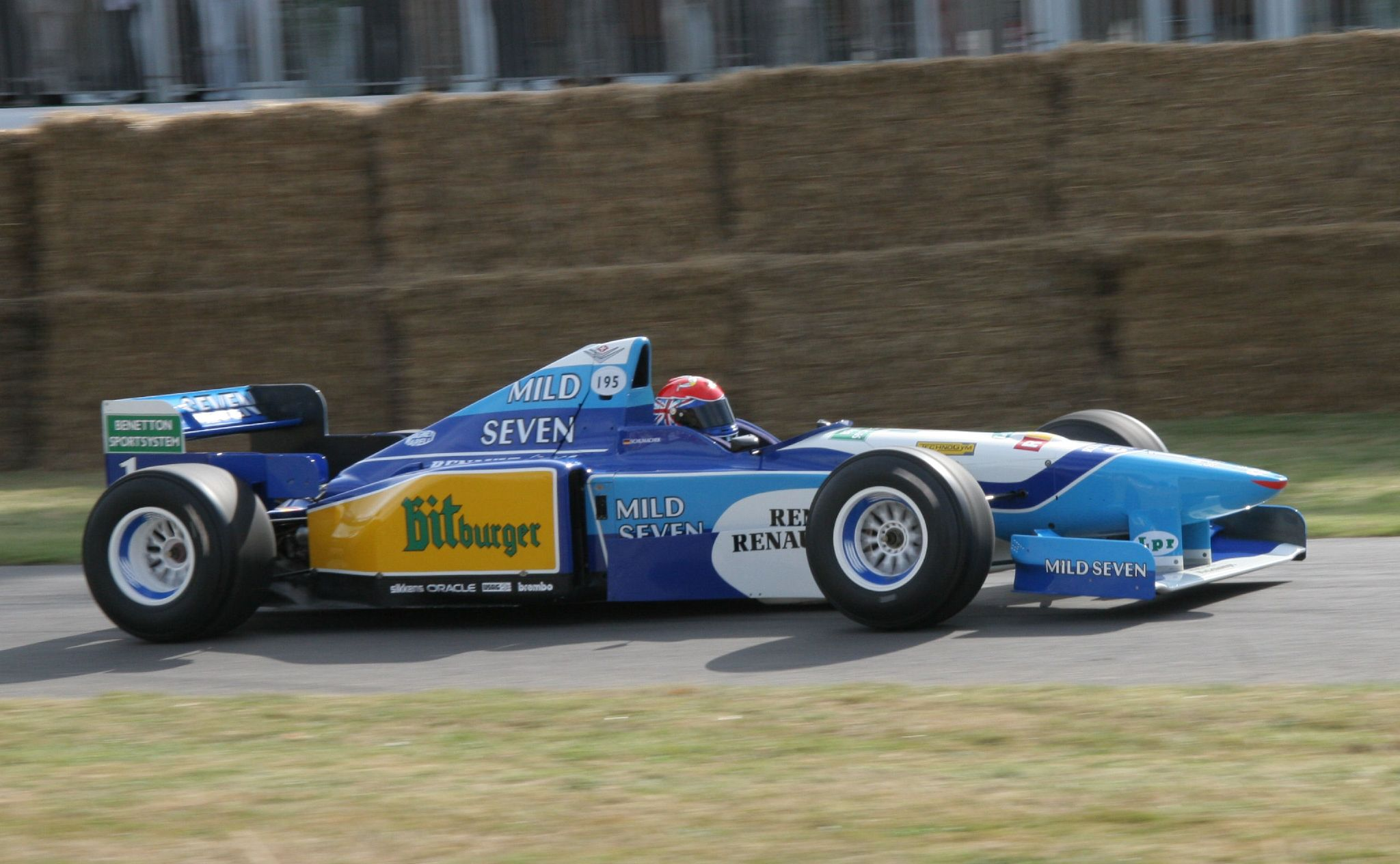 1995 Benetton B195 Formula One car at the 2006 Goodwood Festival of Speed